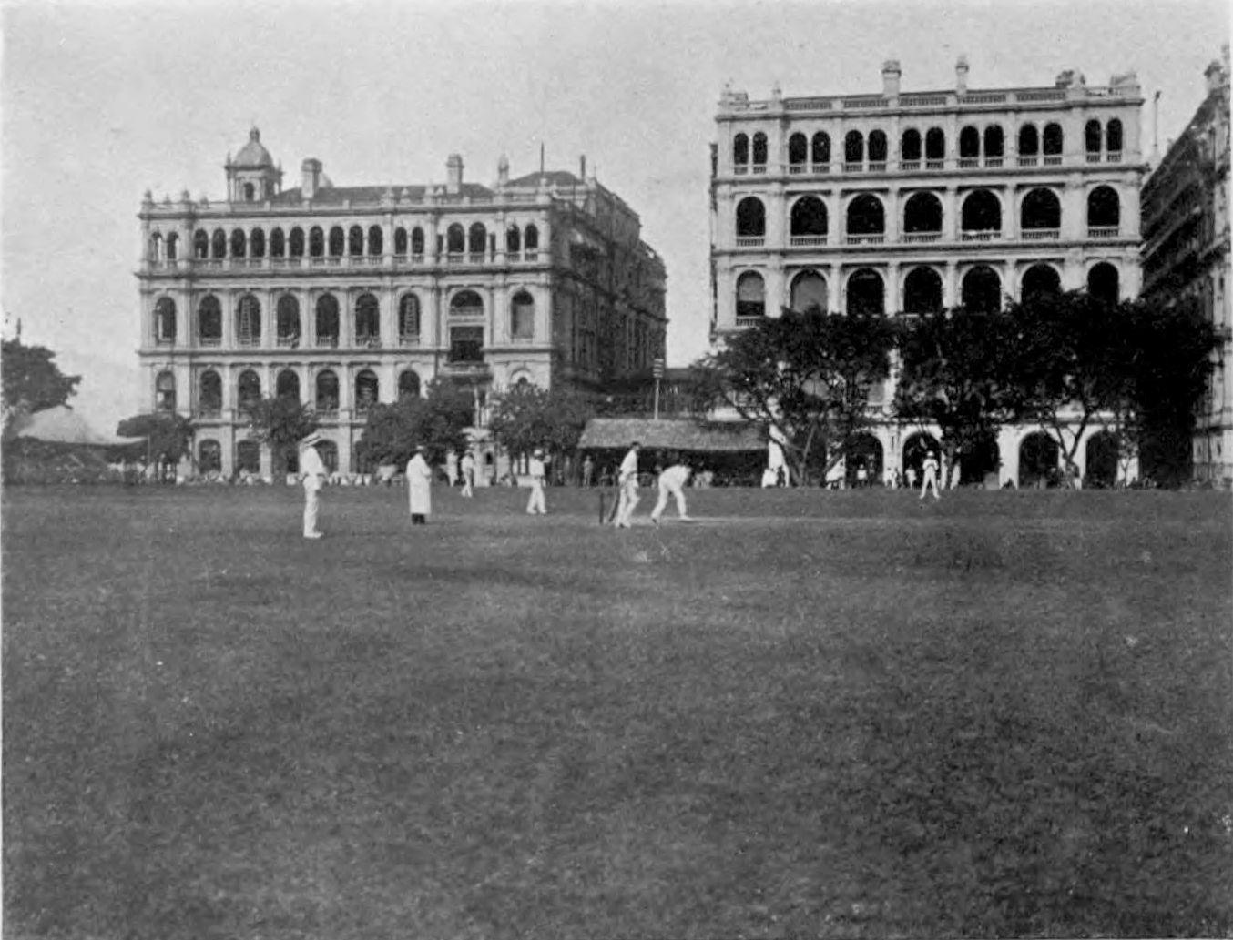 hong kong and shanghai cricket match